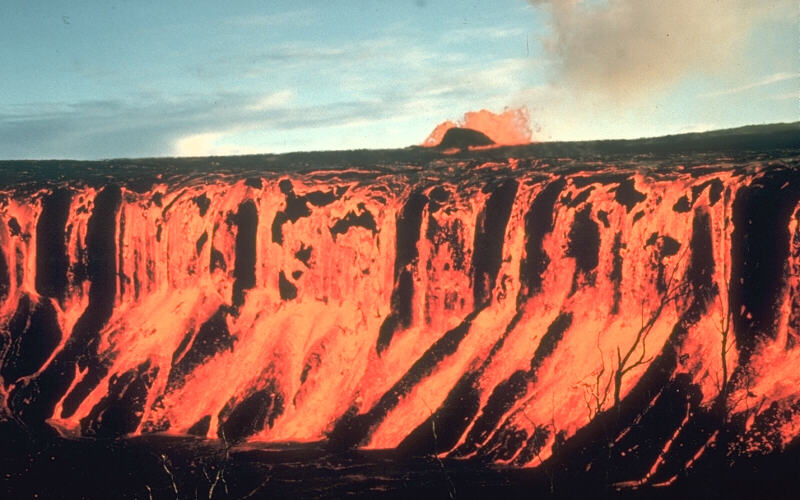 25 m tall Lava cascade of Aloi crater during the Mauna Ulu eruption